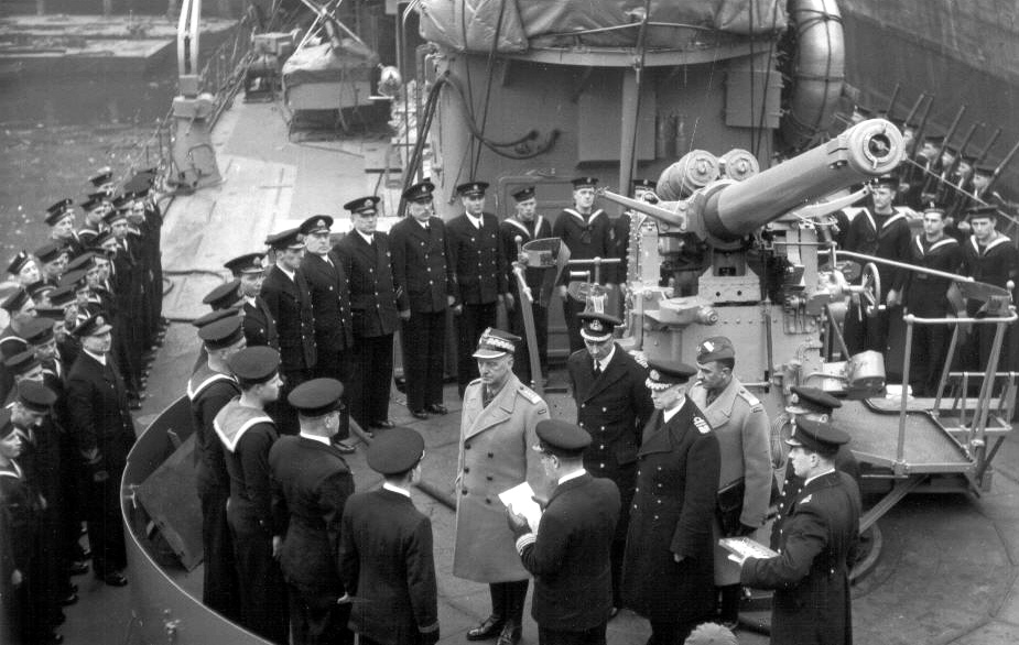 General Władysław Sikorski decorates crew members of ORP Piorun.